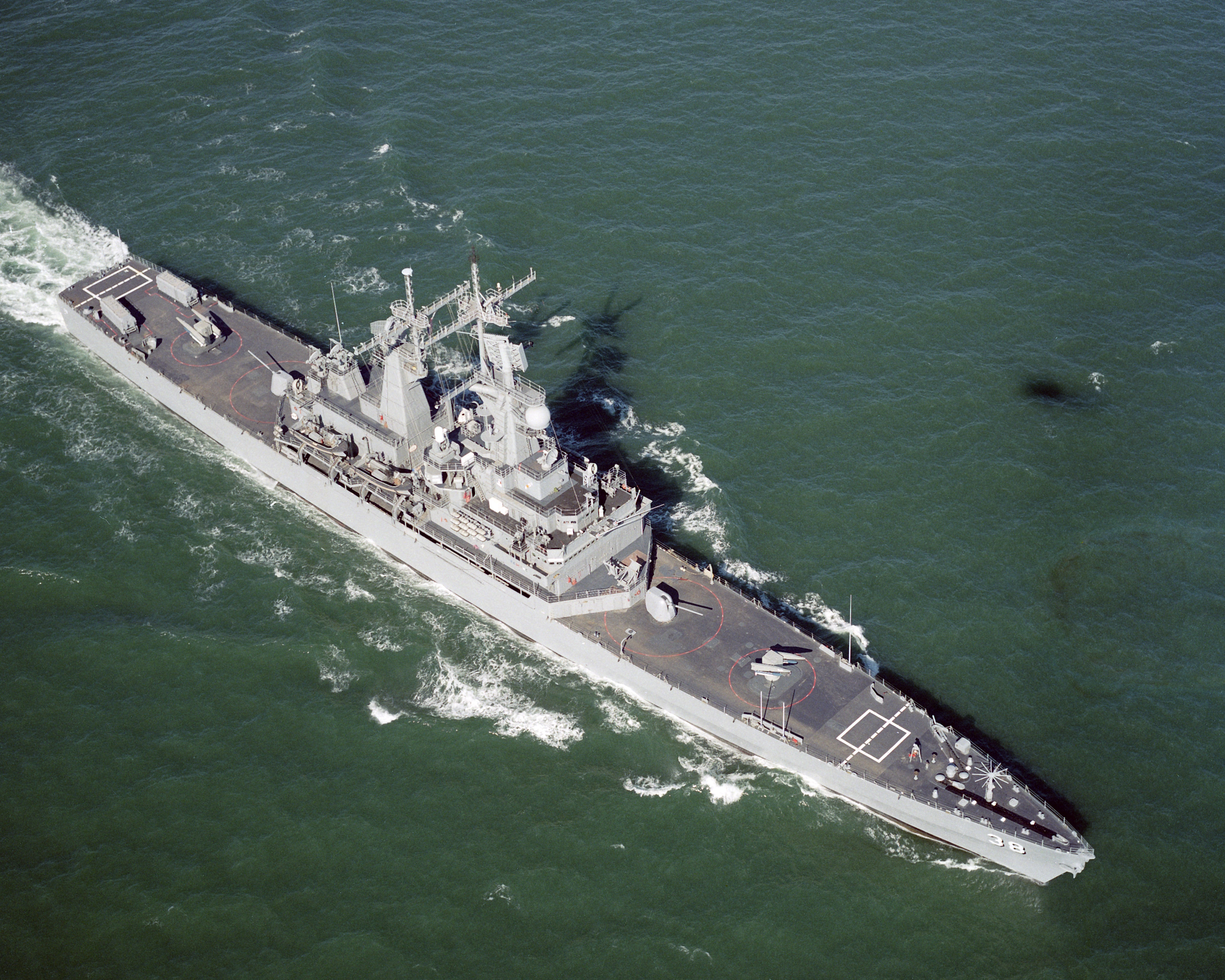 An elevated starboard bow view of the nuclear-powered guided missile cruiser USS VIRGINIA (CGN 38) underway off the coast of Cape Henry, Virginia (VA).